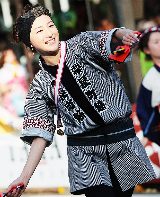 Kochi Yosakoi Festival in Kochi, Japan. Japanese actress Ryoko Hirosue perfoming dance at festival.